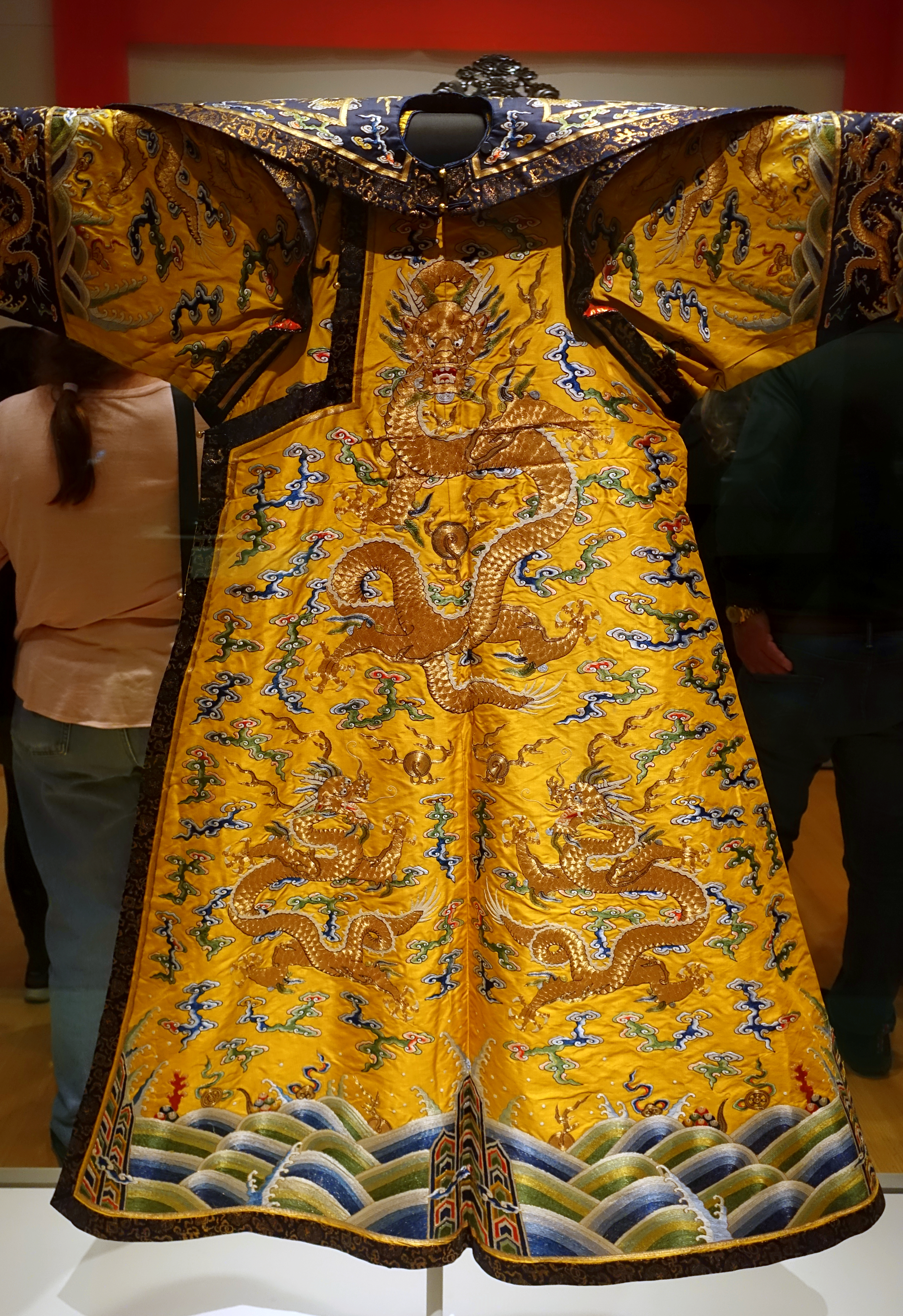 Exhibit in the Peabody Essex Museum - Salem, Massachusetts, USA.